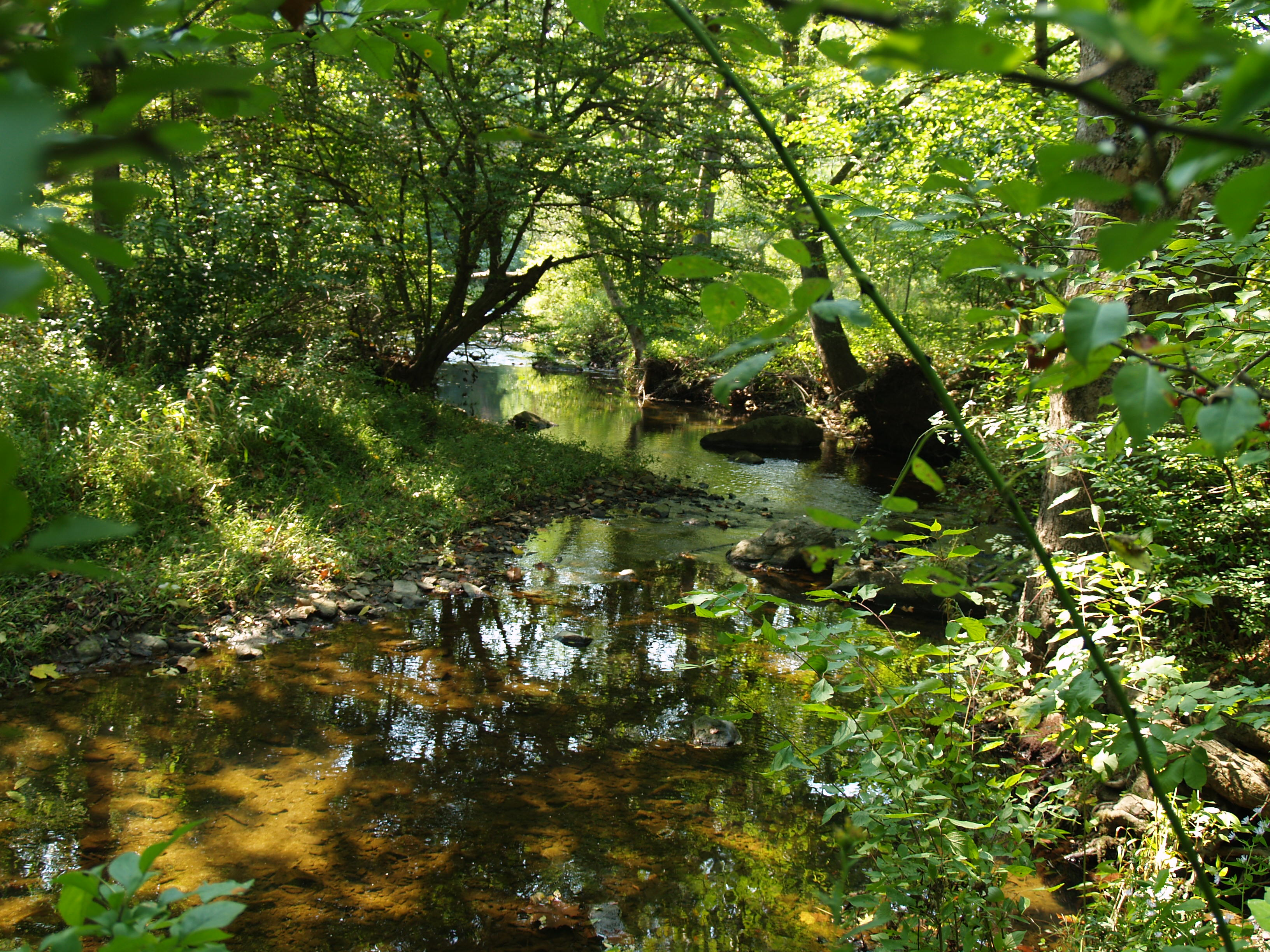 Burrows Run on the Delaware Nature Society Property in Delaware.